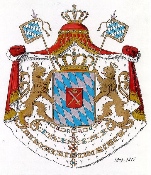 Coat of arms of Kingdom of Bavaria (1807–35)